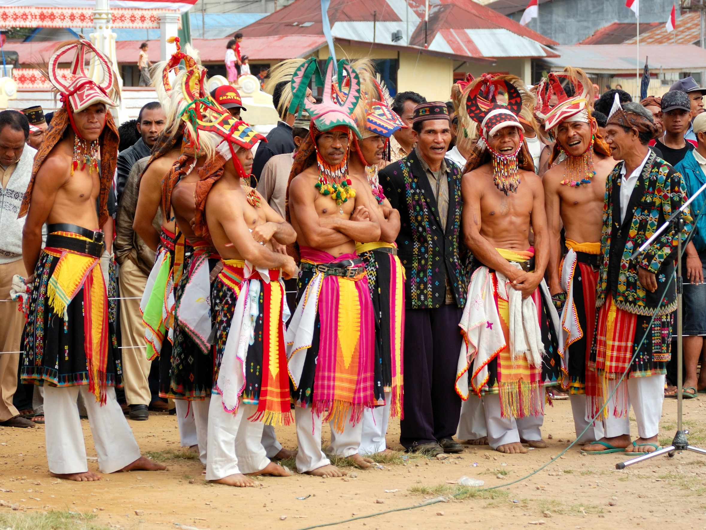 Caci warriors, Ruteng, Flores, Indonesia 2007.